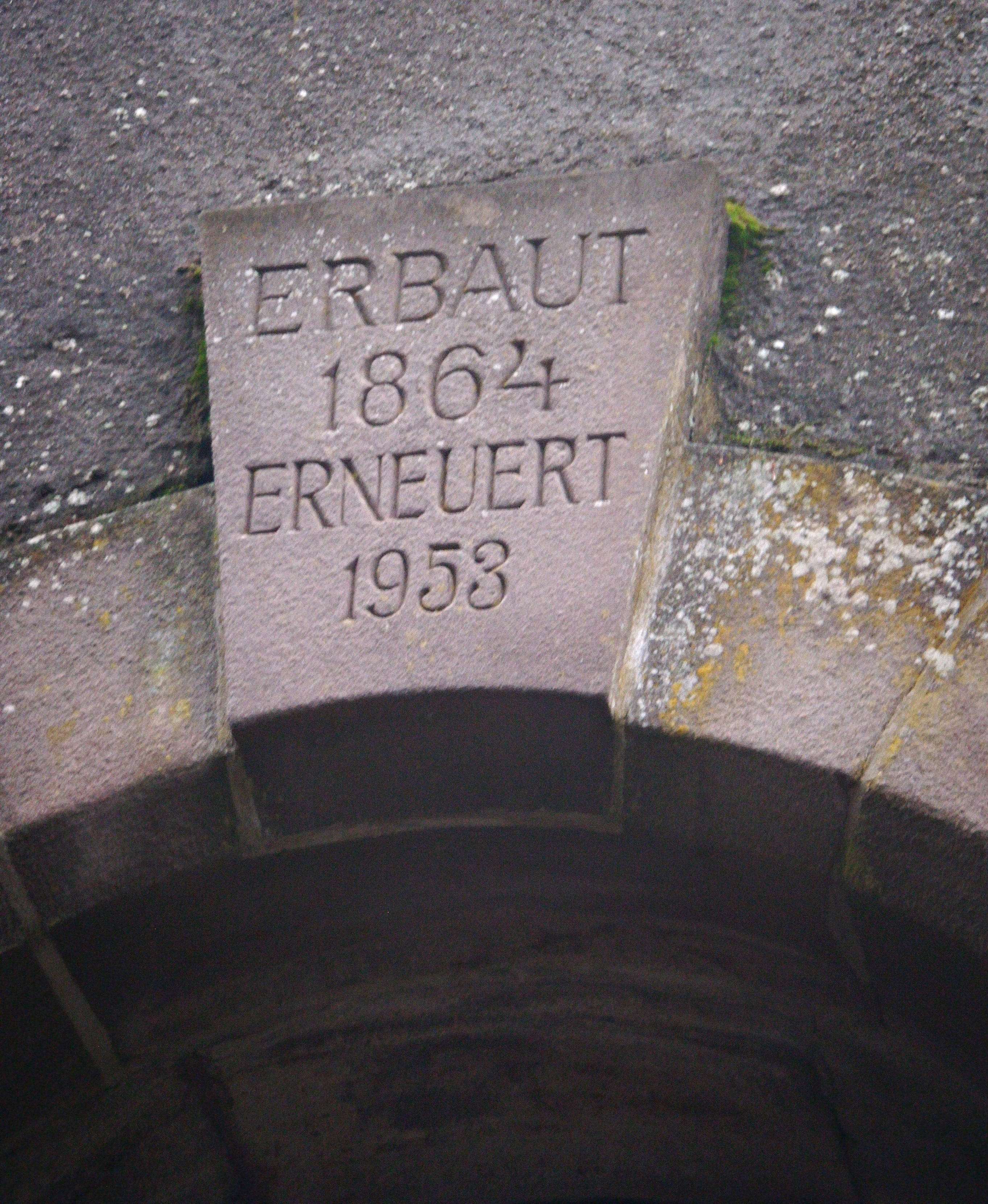 Donnersberg, Ludwigsturm, Scheitelstein der Eingangstür